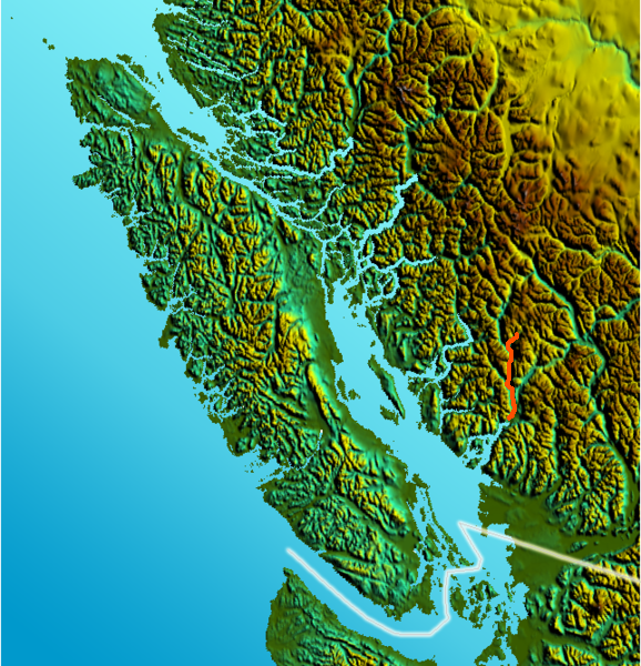 based on 578px-Vancouver_Island-relief.png in Wikimedia Commons